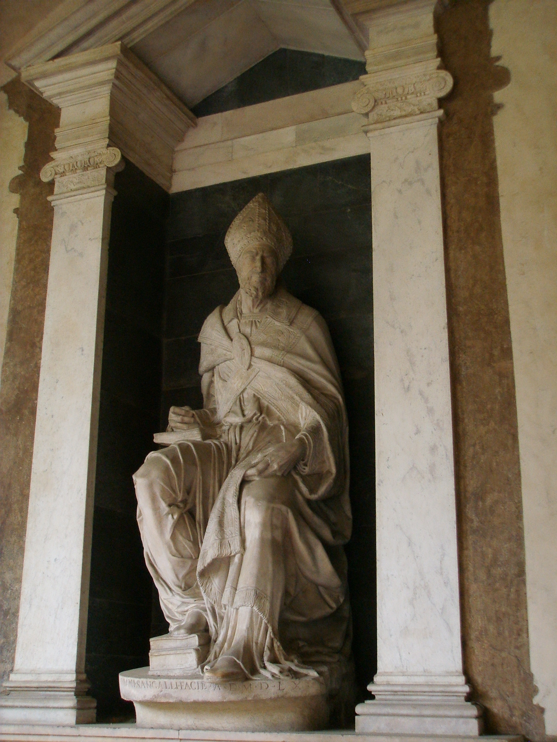 Francesco da San Gallo (signed), statue of Paolo Giovio, writer and bishop of Nocera, in the cloister of San Lorenzo church in Florence, Italy.